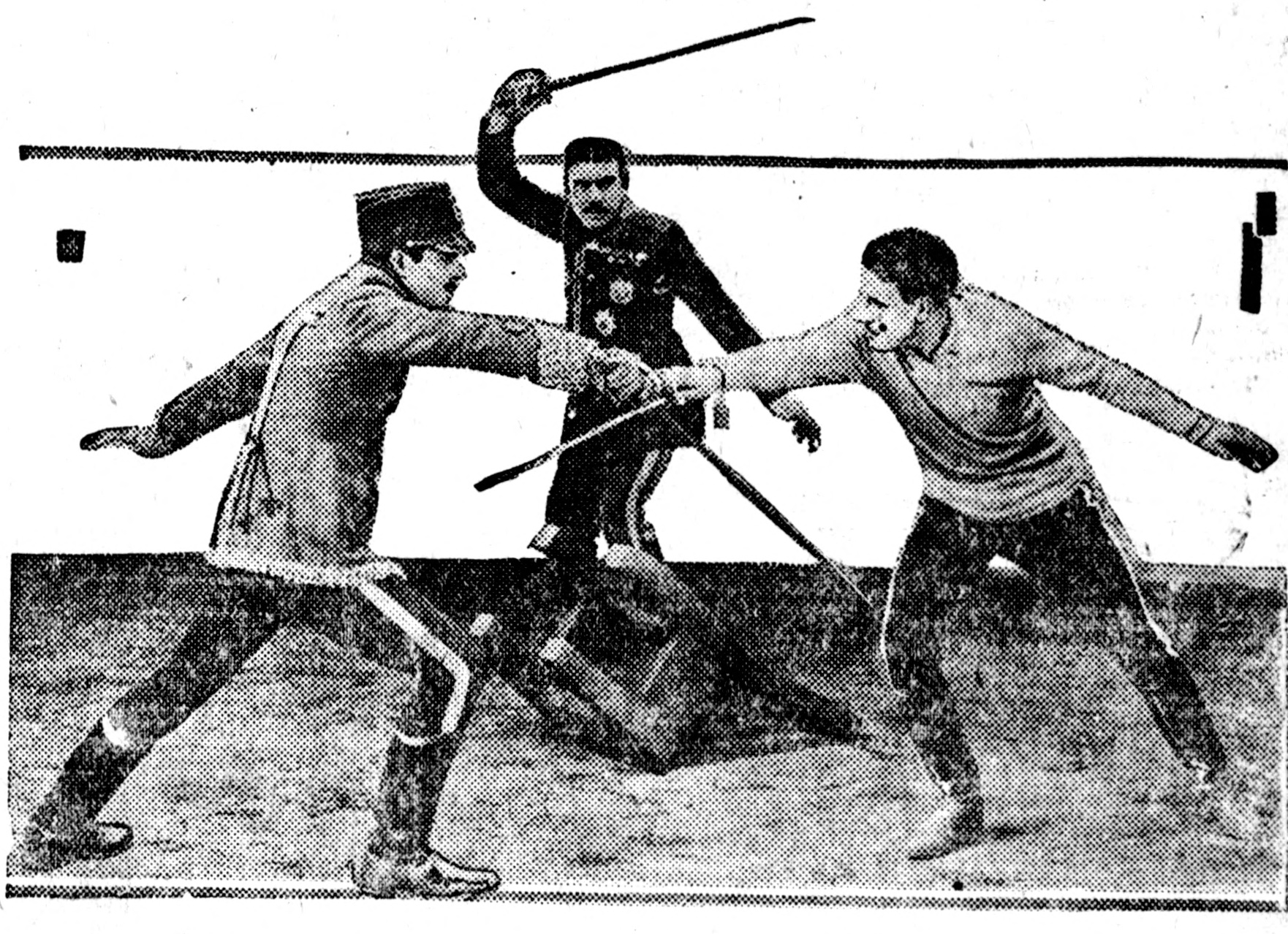 The American film The Prisoner of Zenda (1922), one of the many adaptations of Anthony Hope's popular 1894 novel of the same name and the subsequent 1896 play by Hope and Edward Rose. This is a scene from the film as depicted in a newspaper.